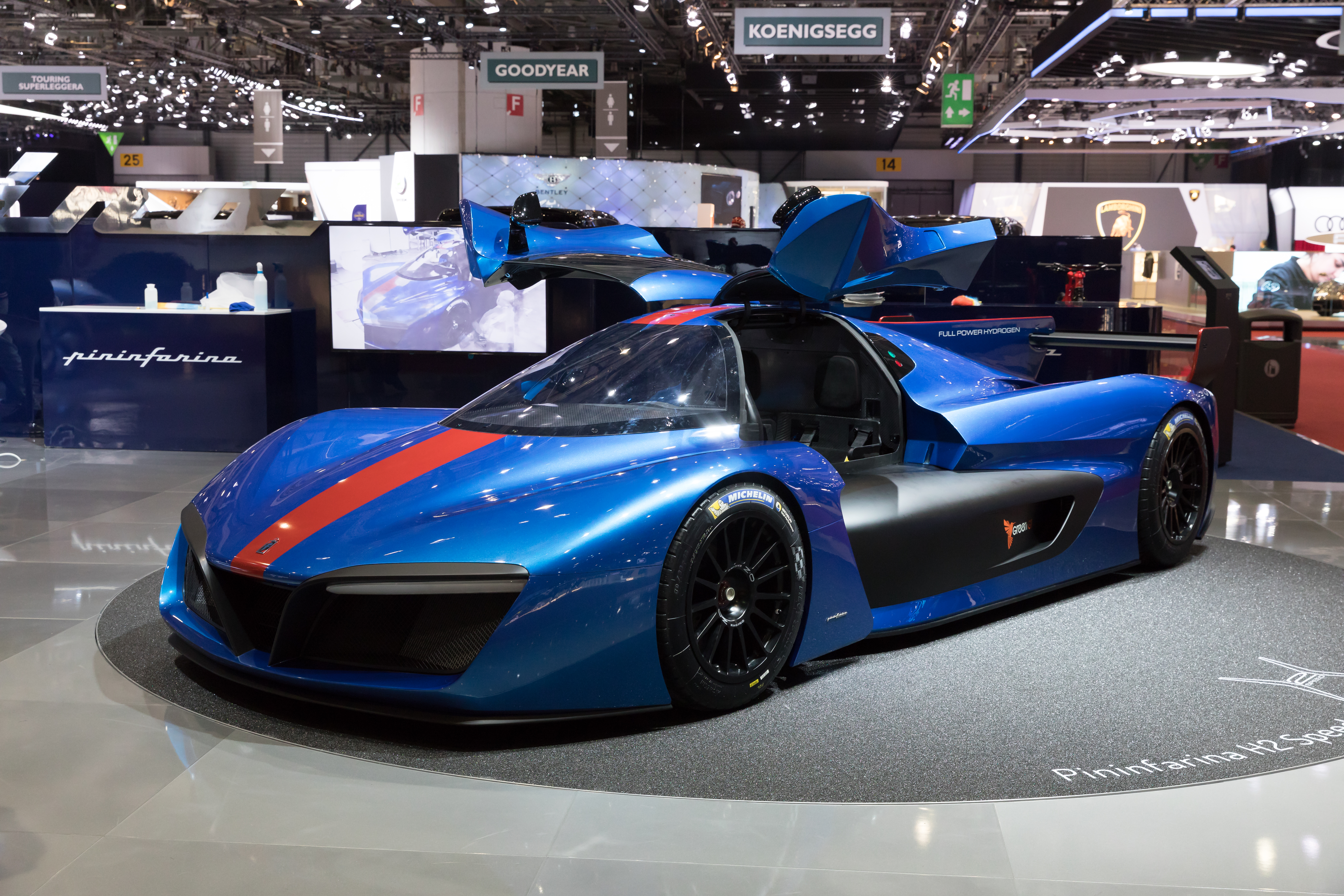 Geneva International Motor Show 2018